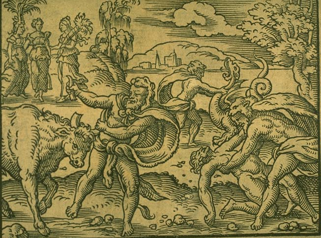 Hercules and Achelous. Engraving by Virgil Solis for Ovid's Metamorphoses Book IX, 1-88.